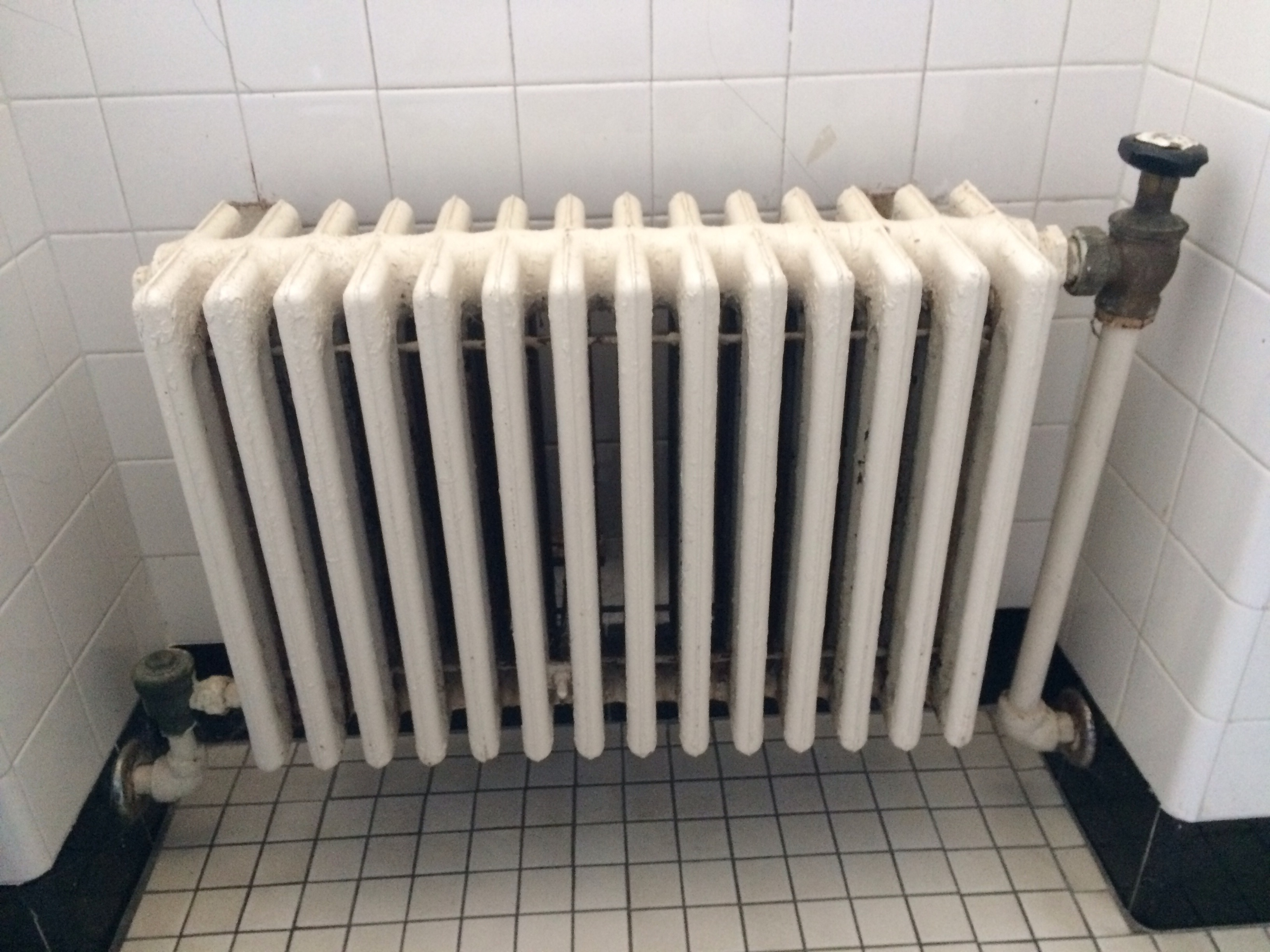 Common Steam Radiator used for heating.